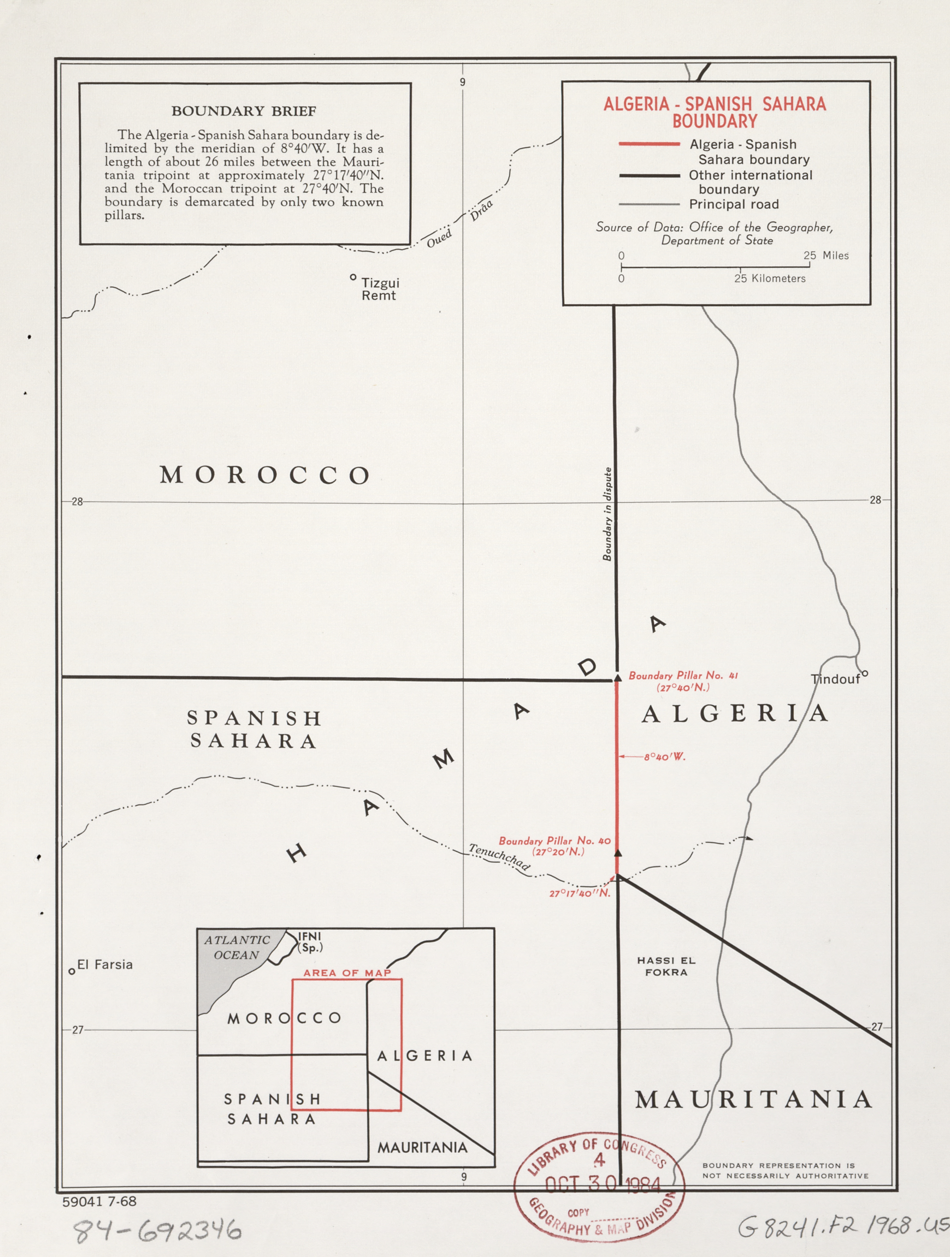 "59041 7-68." "Source of data: Office of the Geographer, Department of State." Includes note and key map. Scale [ca. 1:1,000,000] (W 100--W 80/N 290--N 270).